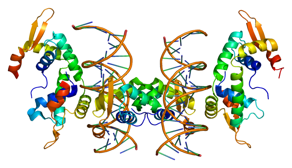 Protein structure image, PDB ID 2a07 (test, using default DNA coloring)